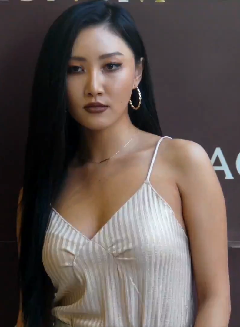 Hwasa at the MAGNUM Ice Cream Pleasure Store opening on 15 June 2018